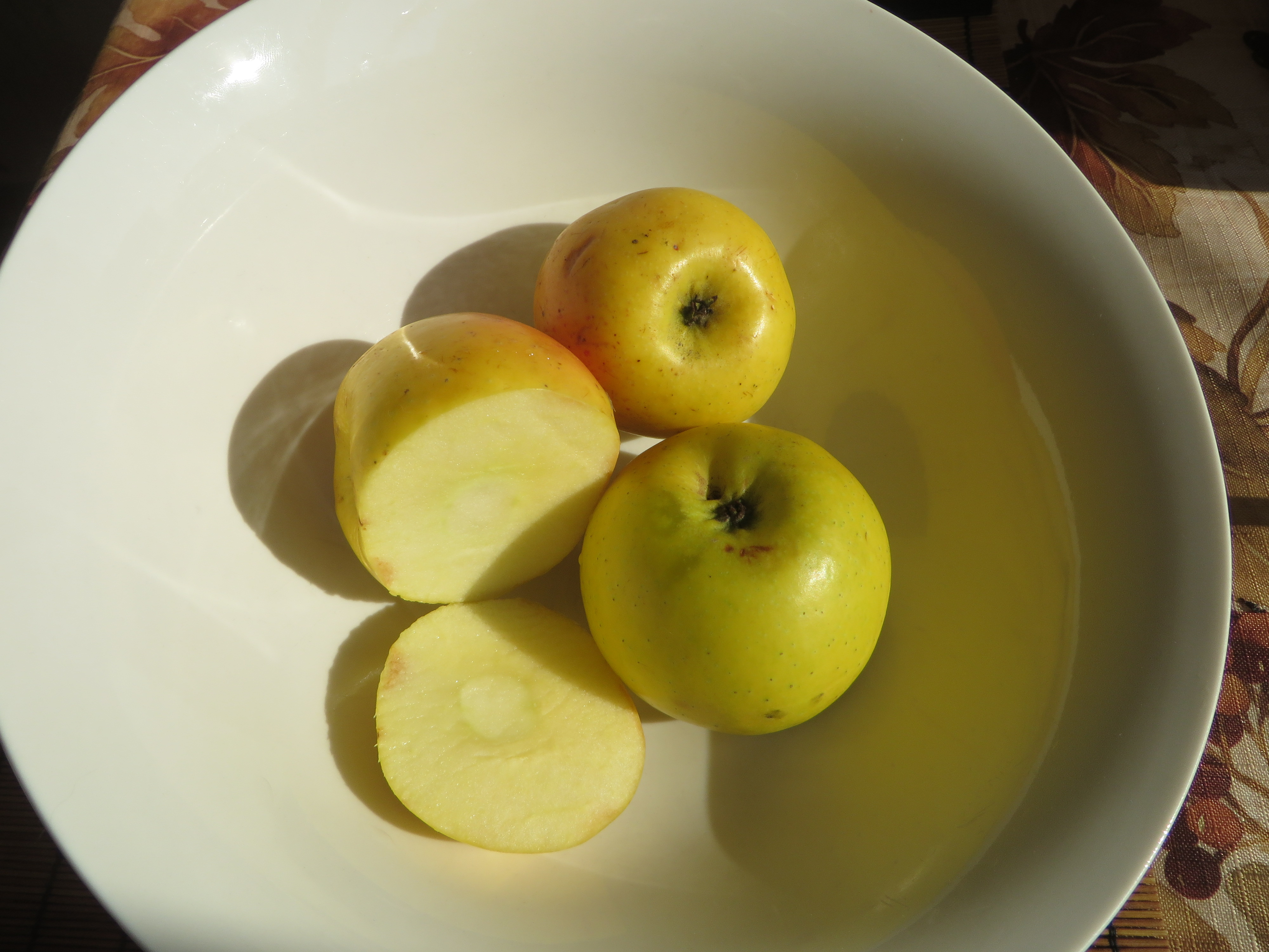 Reinette Simirenko, Chernihiv, Ukraine, 2014